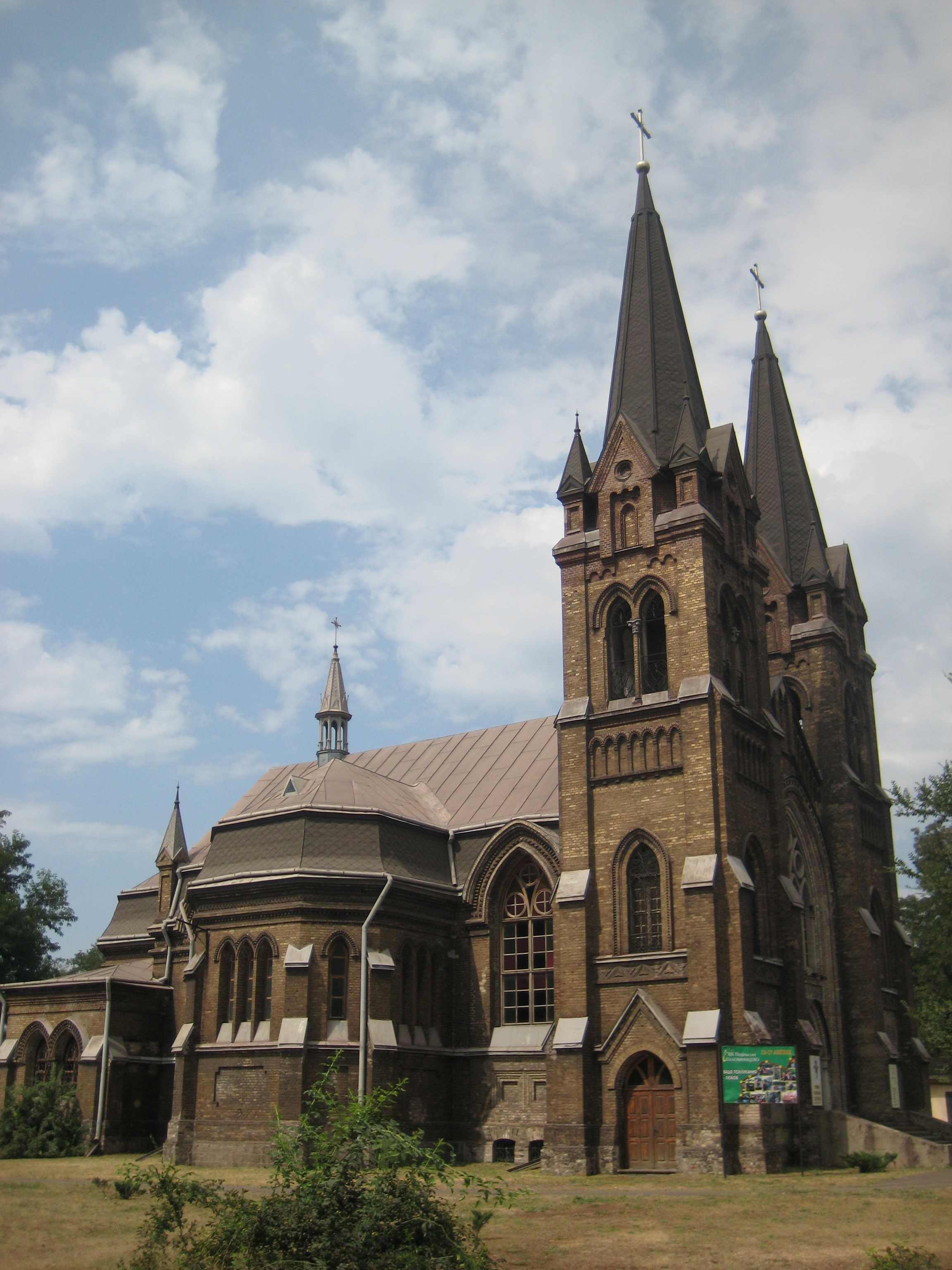 Roman Catholic Church of Saint Nicholas, Dniprodzerzhynsk